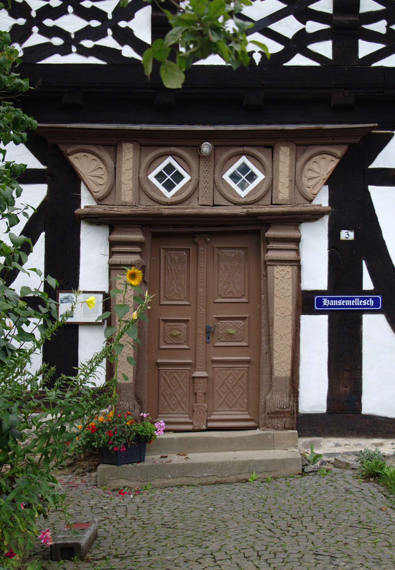 Half-timbered building (water mill) in Grebenhain Ilbeshausen-Hochwaldhausen, Hesse, Germany